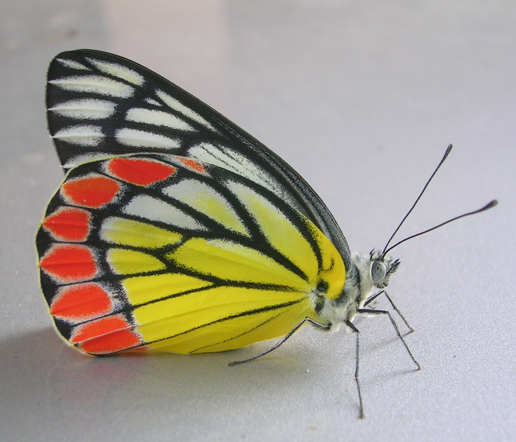 Common Jezebel, Pieridae, Delias eucharis, from Bangalore, India